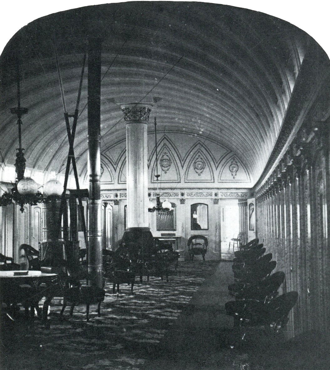 Detail of the upper saloon of the Long Island Sound steamer Commonwealth (1854). This historic stereograph by George Stacy is one of the earliest ever taken of the interior of an American steamboat.